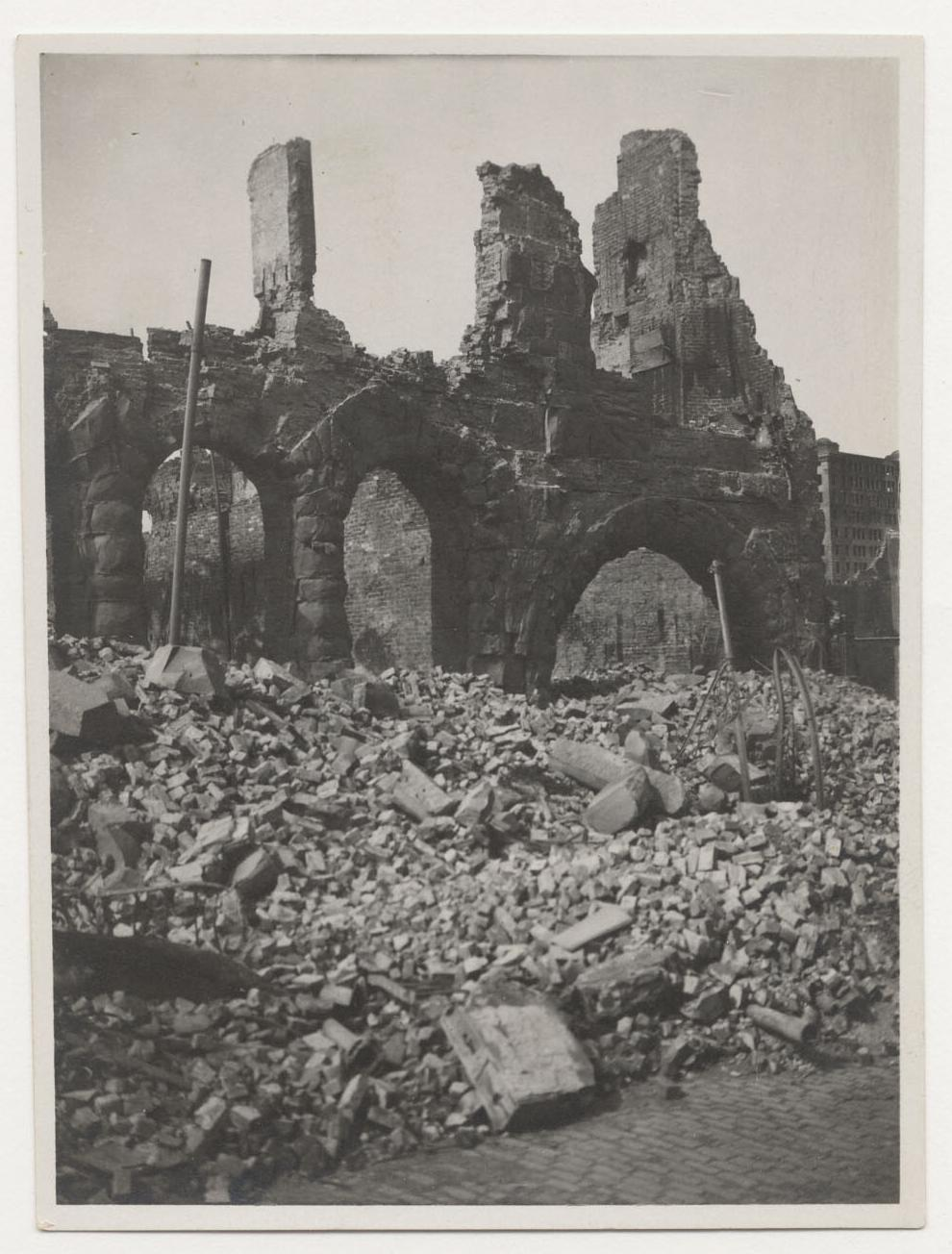 Title: [Ruins of California Theatre. Bush St. near Kearny.] (Aftermath damage of the San Francisco earthquake of 1906). Date: 1906 Subject: Earthquakes--California--San Francisco--Photographs Fires (damage)--Photographs San Francisco (Calif.)--Pictorial works San Francisco Earthquake, Calif., 1906--Photographs A0103 Note: Shelf location: SF -- Earthquake (1906) -- General -- Small Photos No. 1 Type: Photographs Physical Description: 11 x 8 cm. Local Call Number: FN-32953 Filename: chs00000236_40a.tif Related Item: Metacollection: The 1906 San Francisco Earthquake and Fire Digital Collection : eqf Collection: The 1906 San Francisco Earthquake and Fire Digital Collection Contributing Institution: California Historical Society, North Baker Research Library, 678 Mission Street, San Francisco, CA 94105-4014